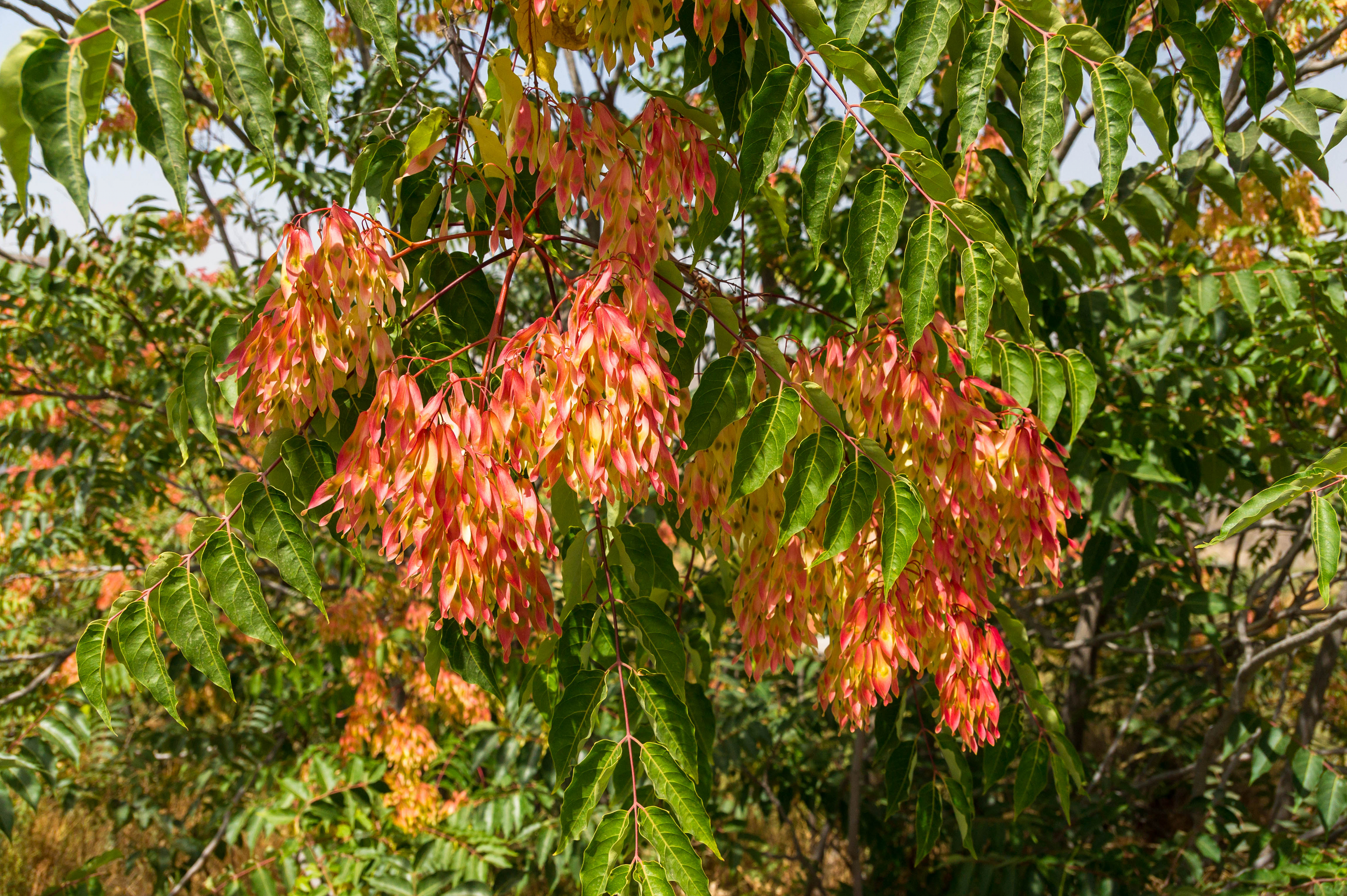 Tree of Heaven, Ailanthus altissima, loads of seeds (samaras) and foliage, Sierra Nevada, August 2012, Andalusia, Spain.